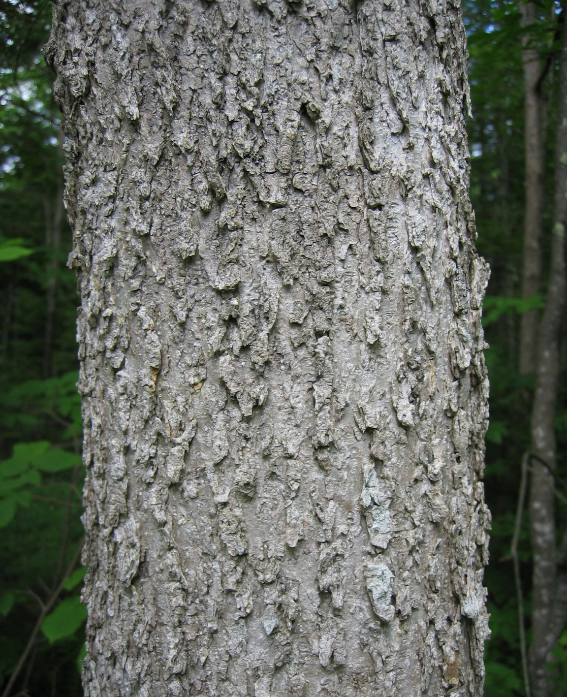 Fraxinus nigra bark